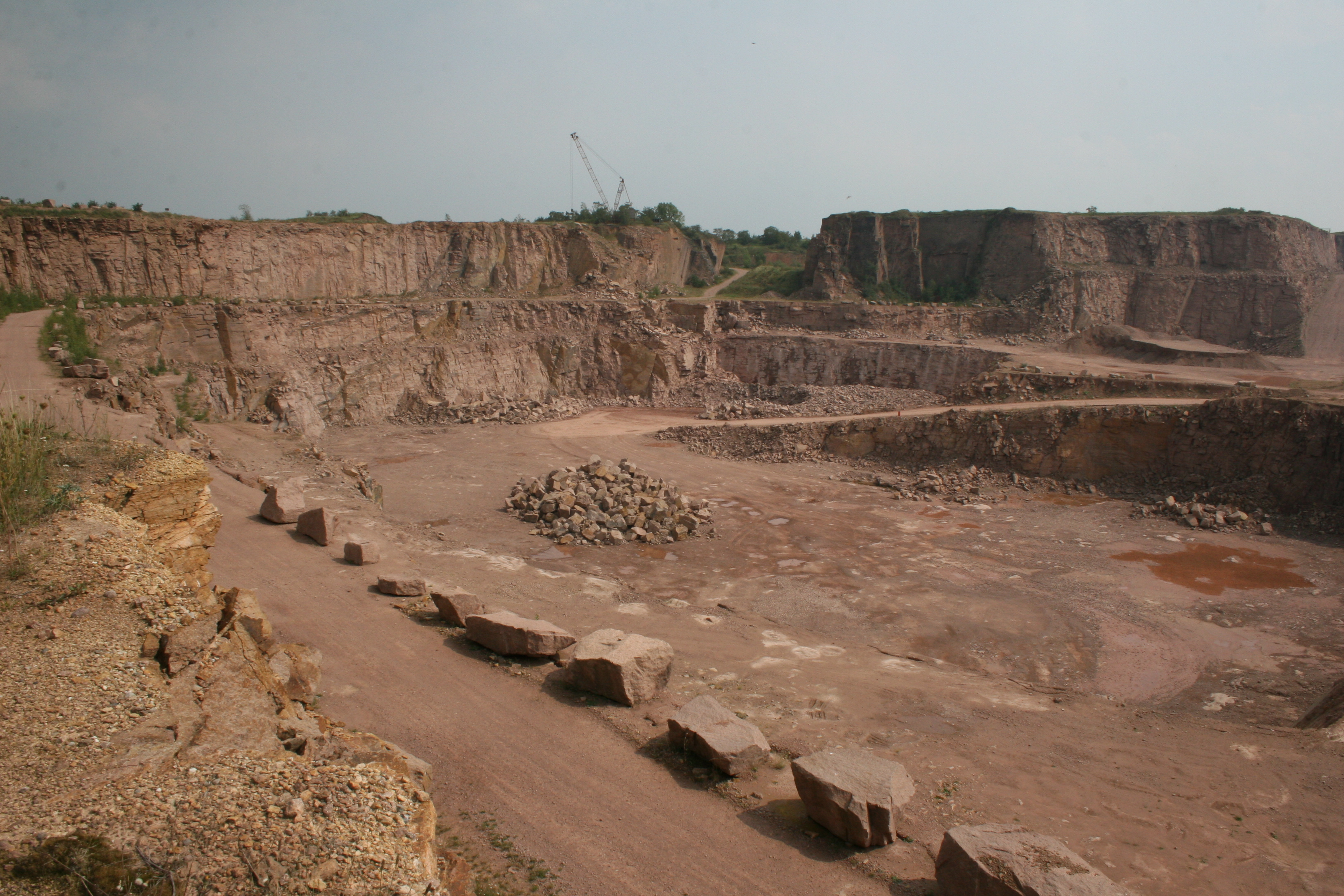 Rhyolite quarry in Löbejün, Saxony-Anhalt, Germany